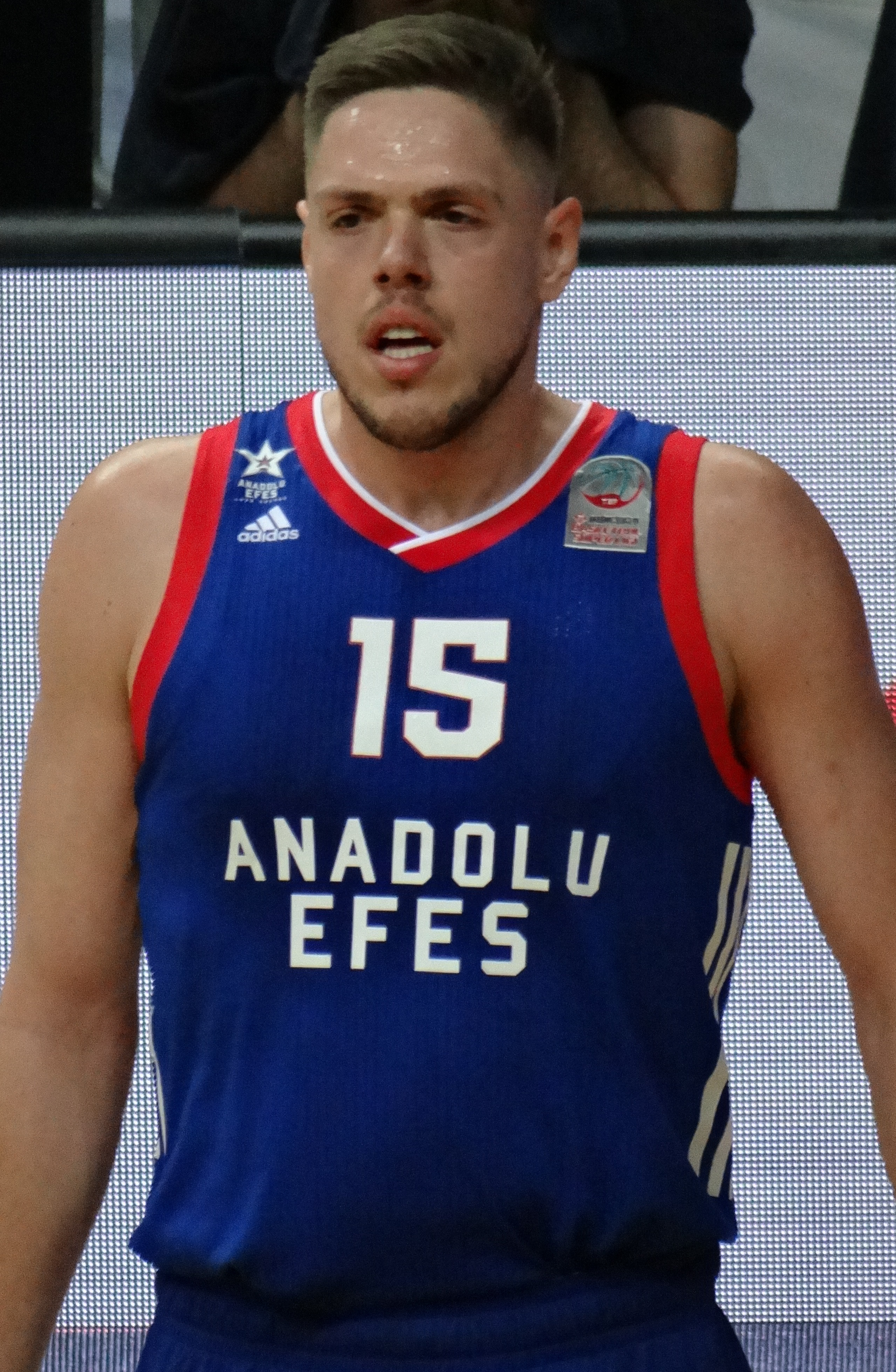 Vladimir Štimac 15 Anadolu Efes 20180204